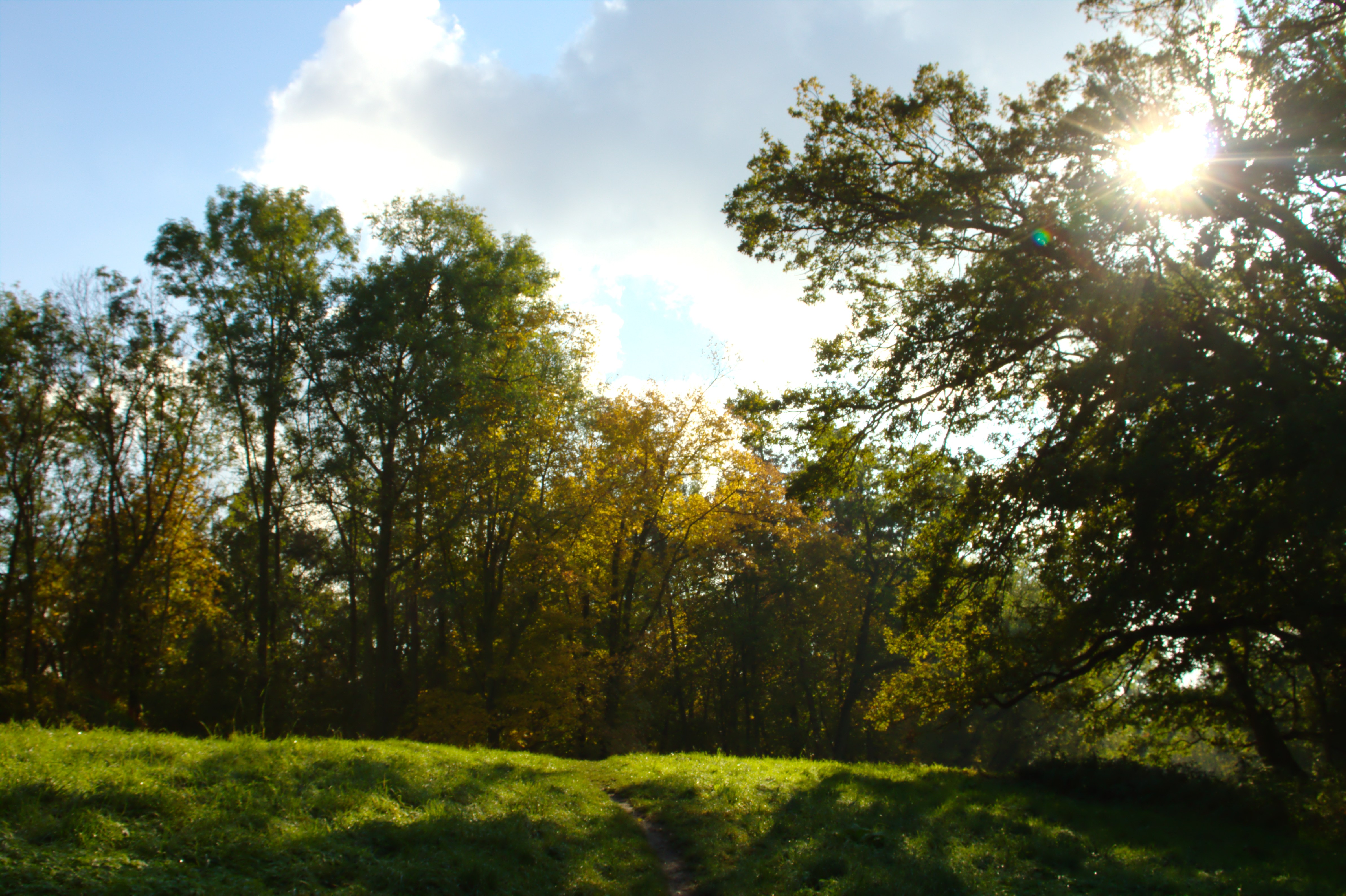 An autumn/fall view of the chateau park in Veltrusy